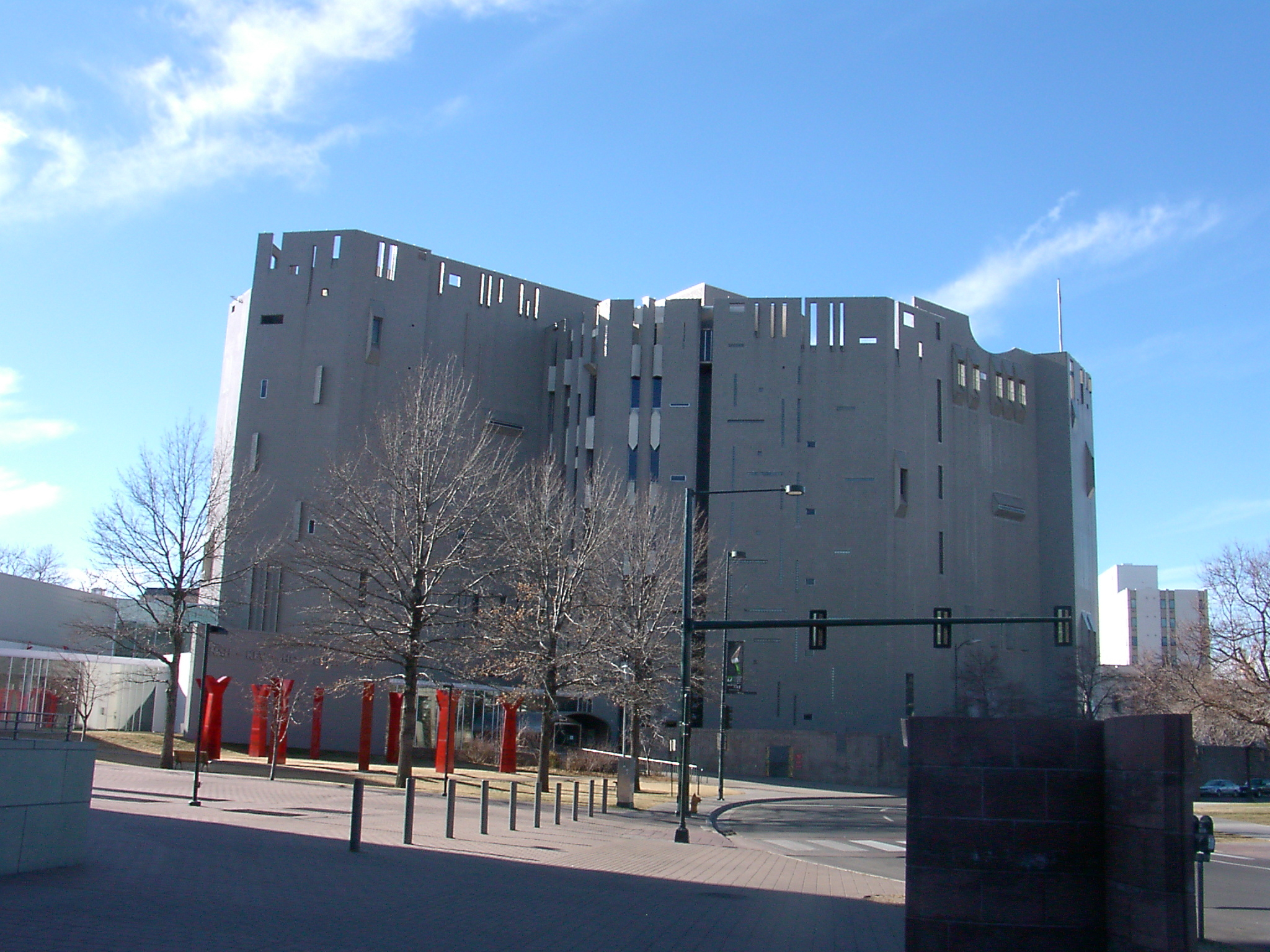 Denver Art Museum East Side, by Giò Ponti